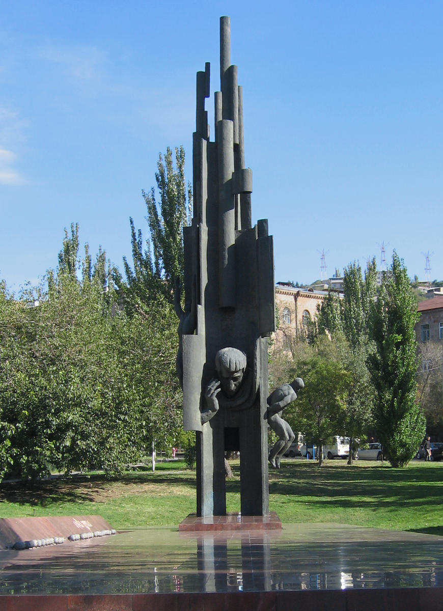 Yeghishe Charents Monument in Yerevan, Armenia